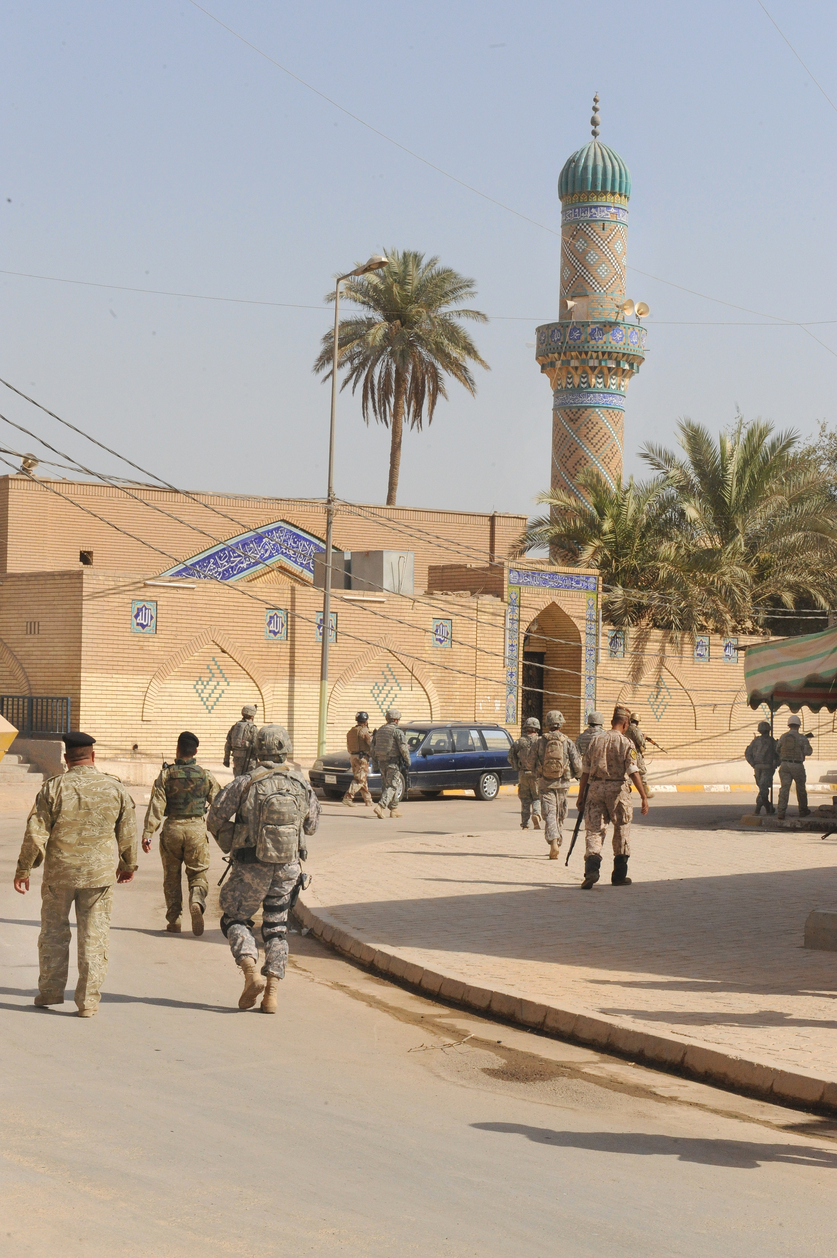 U.S. Army and Iraqi army soldiers walk along a street while conducting a search of the Haifa Street Apartments for improvised explosive device making materials and possible cache sites in Baghdad, June 25, 2009.